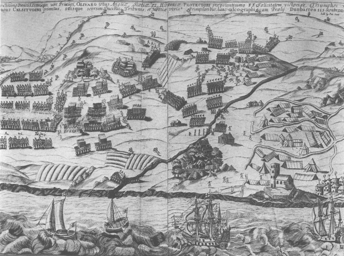 Battle of Dunbar 1650. This image is annotated on its Description Page.